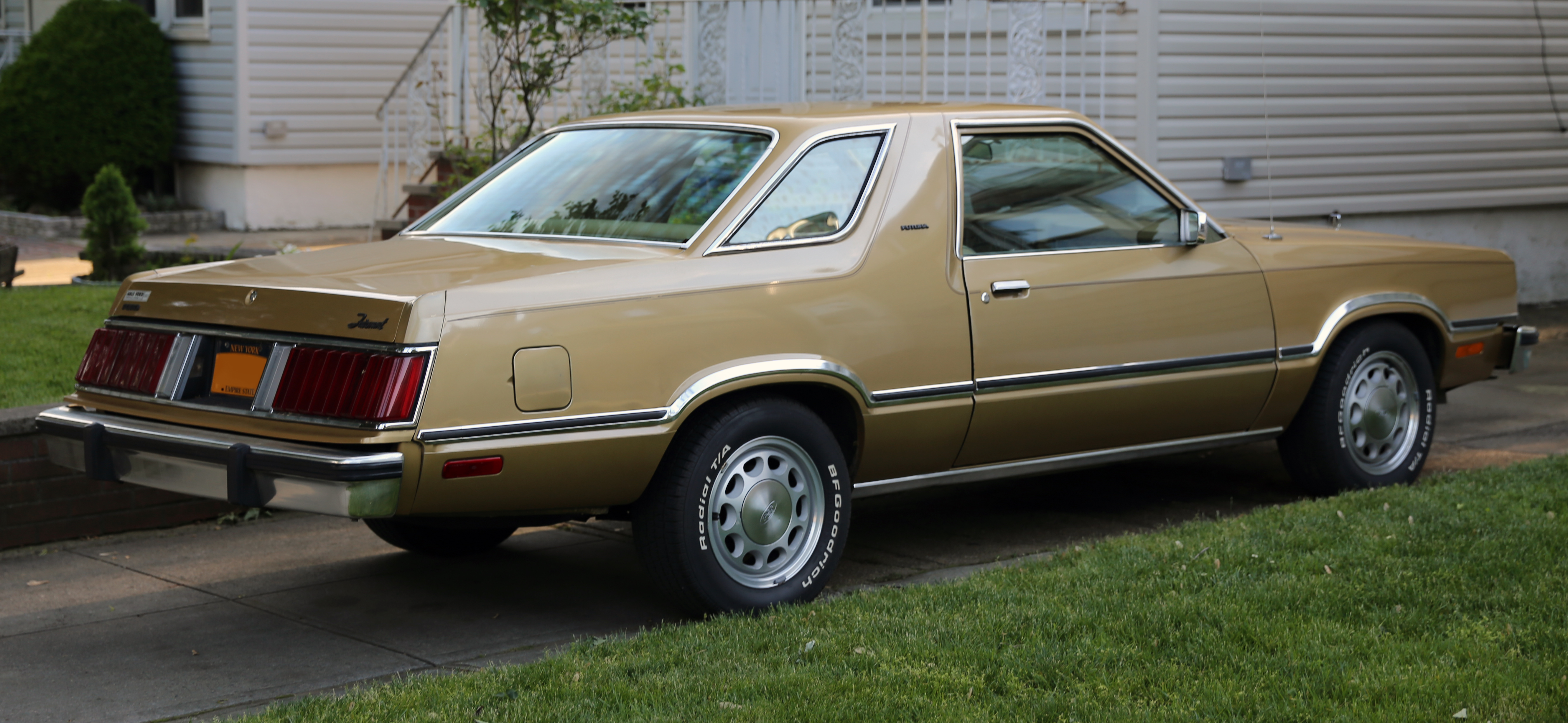 Rear right 3/4 view of a 1980 Ford Fairmont Futura coupé, with non-standard (but handsome) Mustang alloy wheels. Originally fitted with a single-barrel 3.3 litre inline-six, although I have a feeling that this has been swapped out for something more powerful.